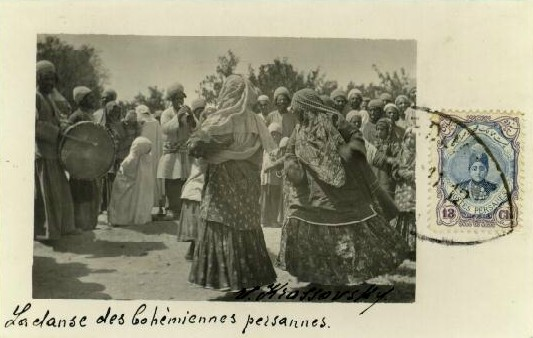 "The dance of the Persian gypsies"